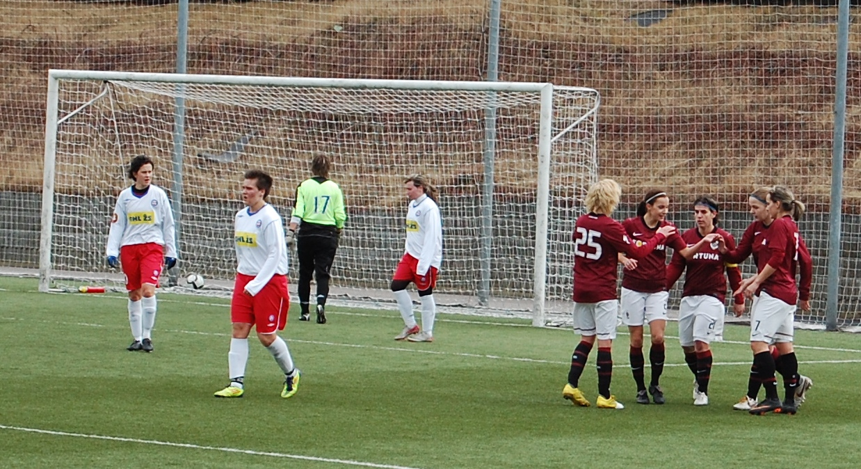 Sparta Praha celebrate a goal against Brno in the Pohár KFŽ (women's cup). L-R: 25. Adéla Pivoňková, 2. Irena Martínková, 21. Iva Mocová, 17. Tereza Kožárová, 7. Lucie Martínková.